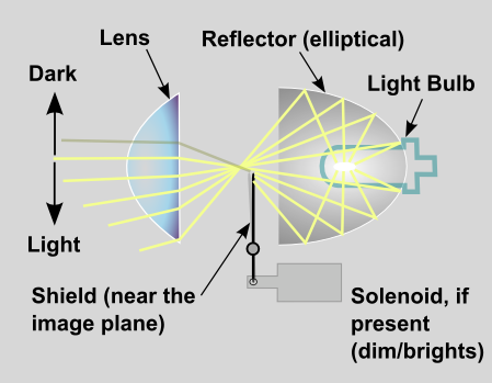 Headlamp schematic (projector optics)